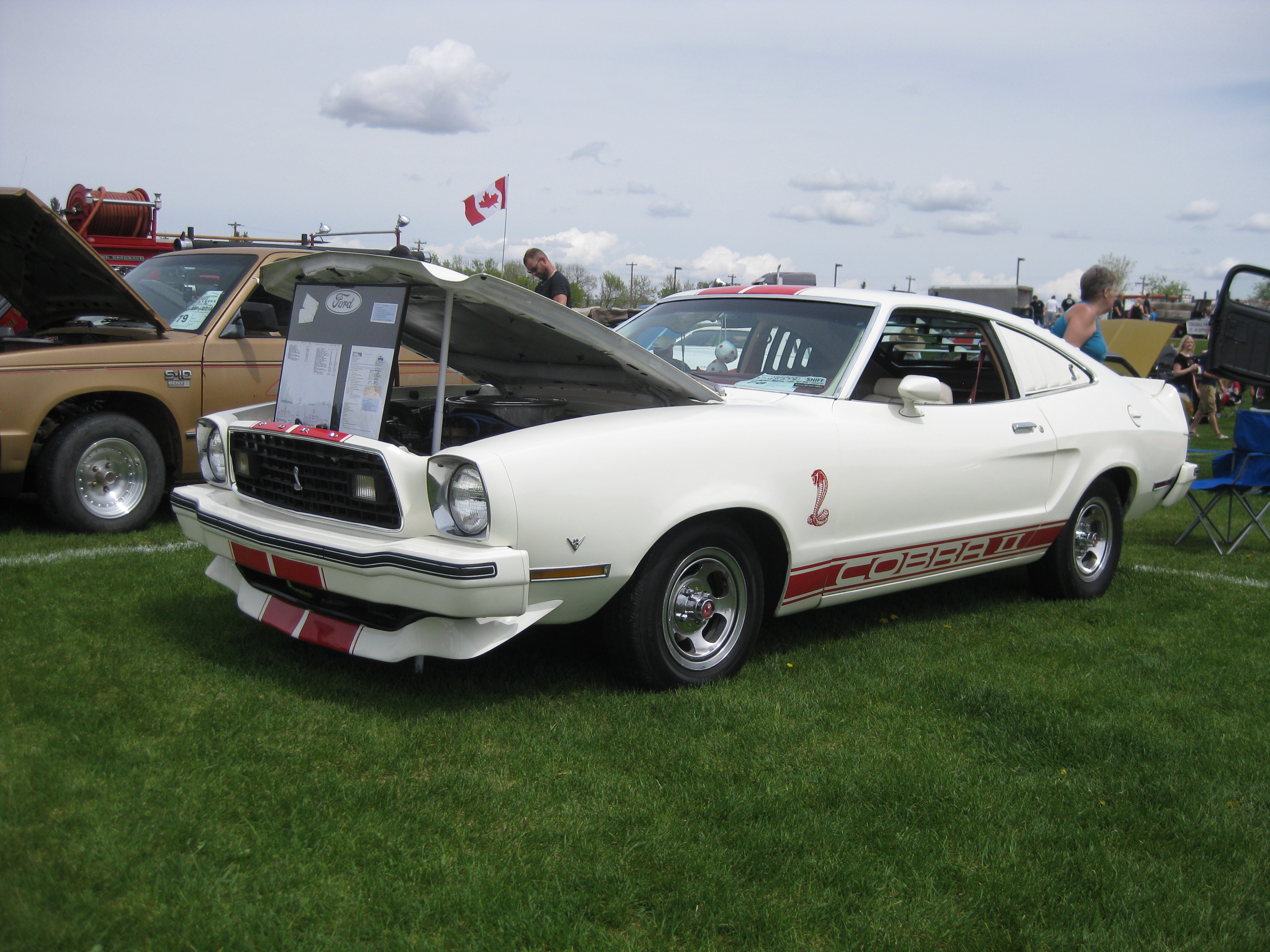 Ford Mustang Cobra II